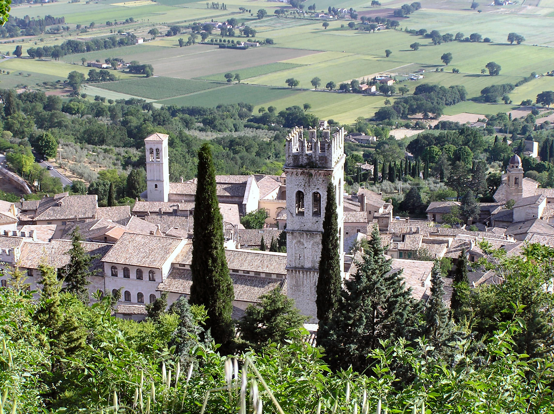 Assisi seen from Rocca